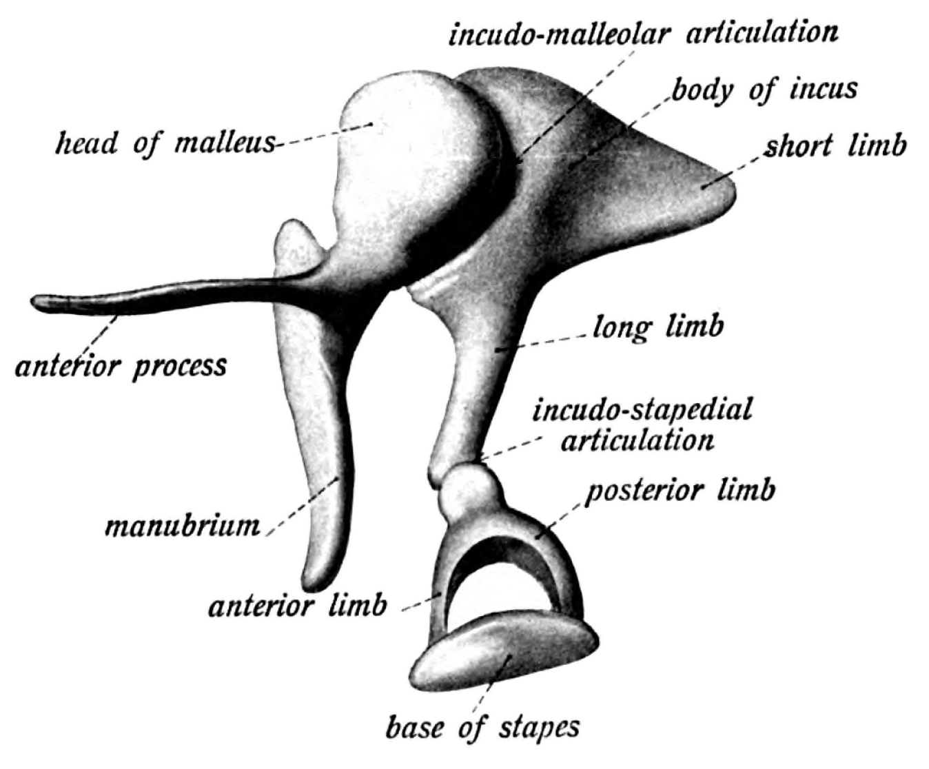 An anatomical illustration from the 1909 edition of Sobotta's Anatomy